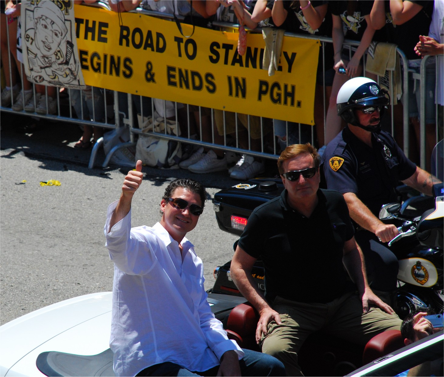 Mario Lemieux during the 2009 Stanley Cup parade in Pittsburgh PA.